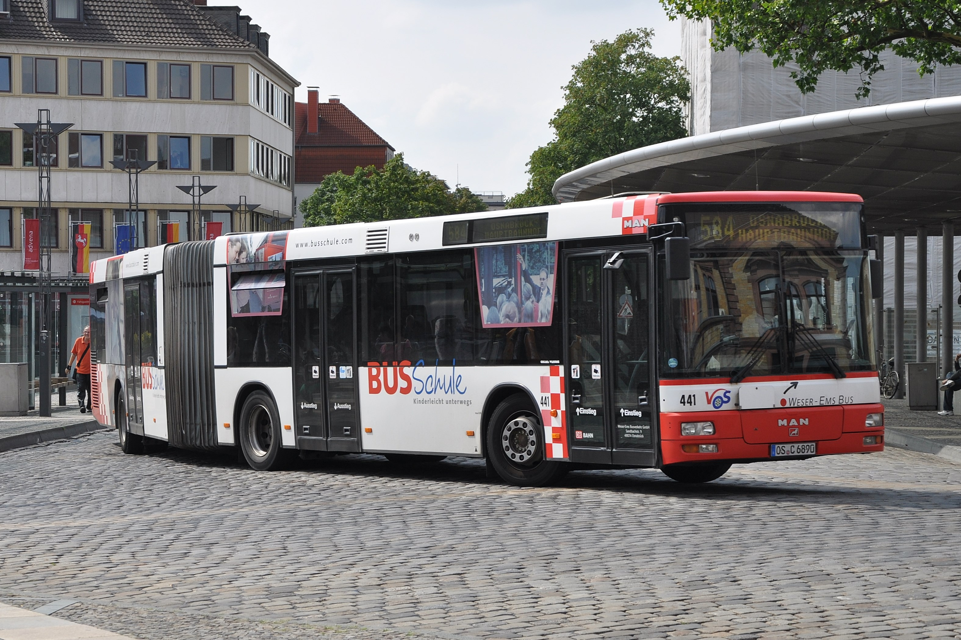 MAN Lion's City of Weser-Ems Bus at Osnabrück Hauptbahnhof bus stop.